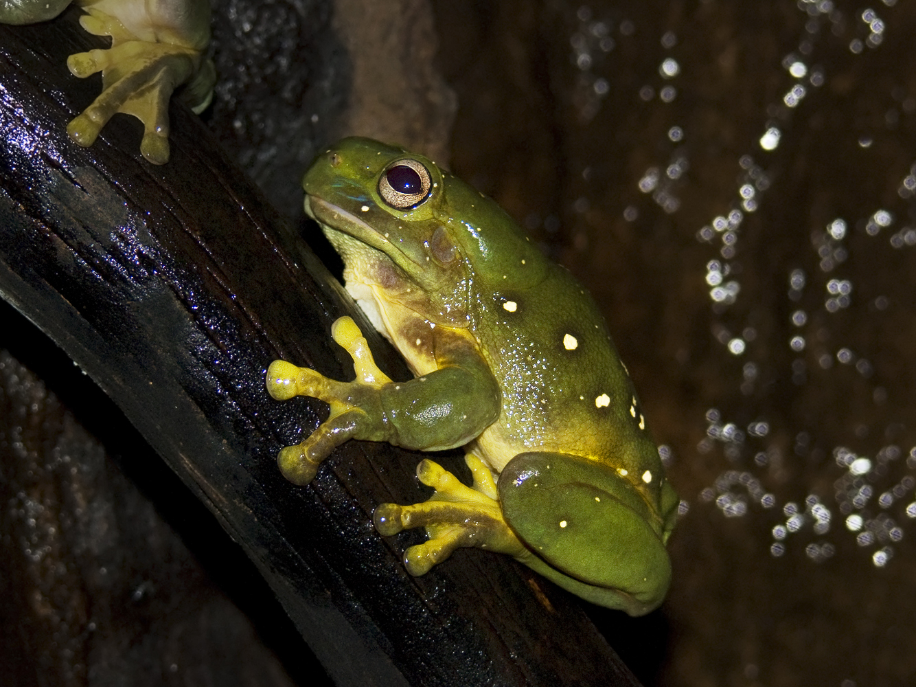 A Splendid tree frog, Litoria splendida